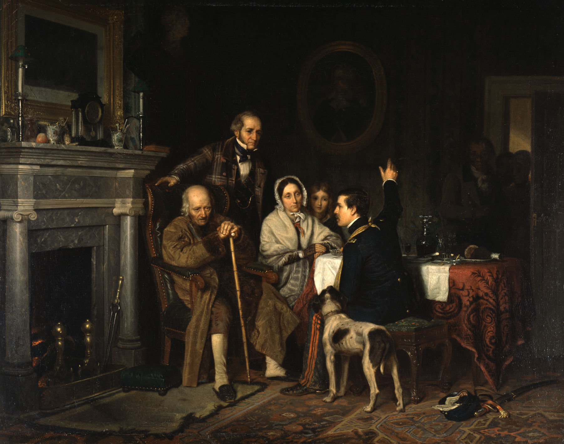 A young officer recounts his experiences in the Mexican War of 1848 to a veteran of the American Revolution. The persons represented are members of the artist's family: the old man is his great-uncle Richard Caton; his mother and father appear as the middle-aged couple, his elder sister as the young lady, and his brothers as the officers. Discernible on the walls of the Baltimore parlor are a portrait of George Washington by Rembrandt Peale and an engraving of John Trumbull's Signing of the Declaration of Independence (ca. 1776).